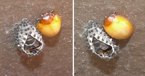 Old larva skin around left pupal case, beside the newly emerged adult stage of Exochomus quadripustulatus (Common name: Pine ladybird, synonym: Brumus quadripustulatus). Head, pronotum (neck shield) and elytra (wing-cases, wing covers) do not show the final colour yet. The colouring will take several hours. Clearly visible are the already darker head and pronotum, because they colourize faster. The pronotum is uniformly coloured, hence it will not show any dots when finally coloured. Photos taken: 2013-07-24, Westphalia, Germany.